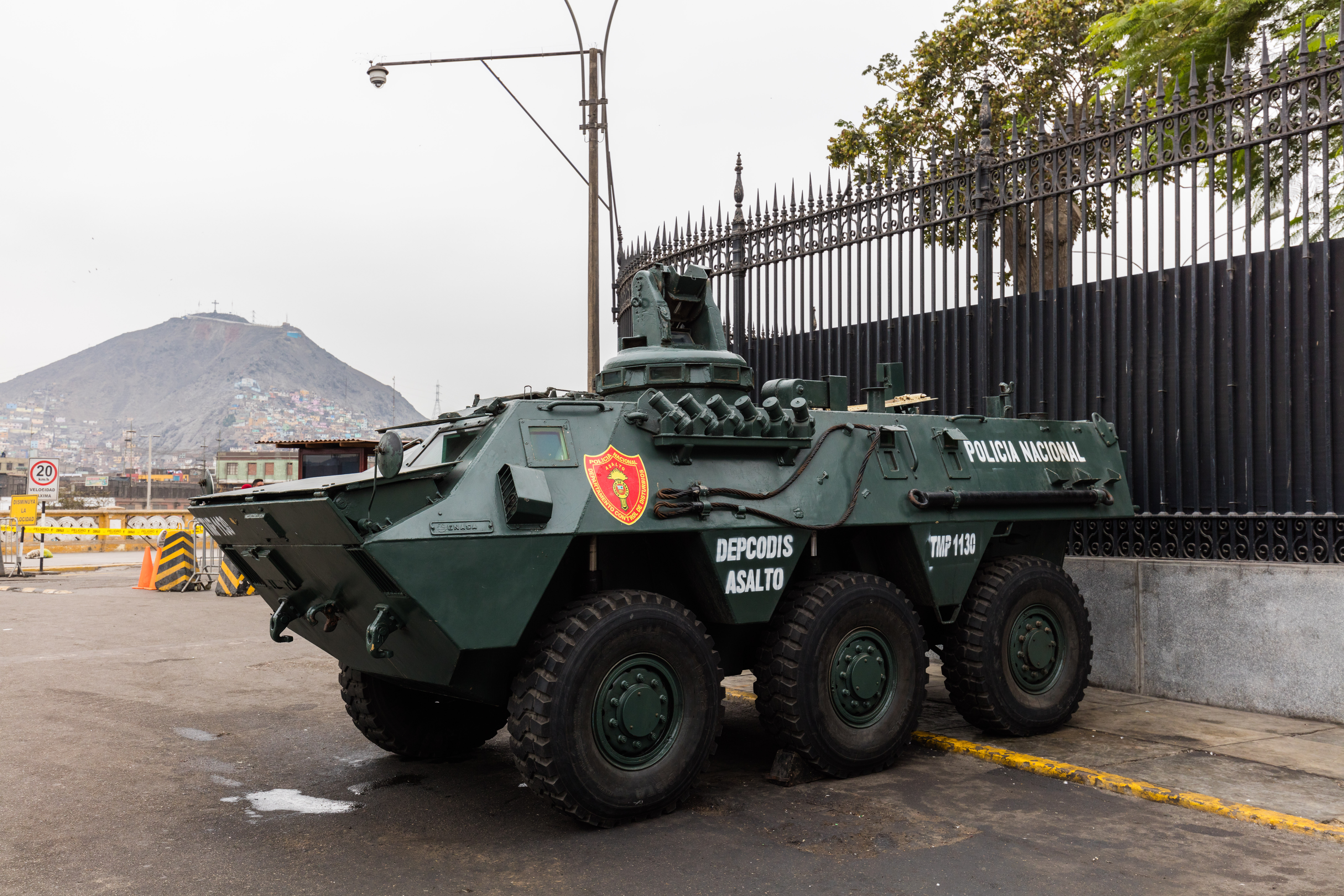 Armoured police vehicle (model BMR-600), Lima, Peru